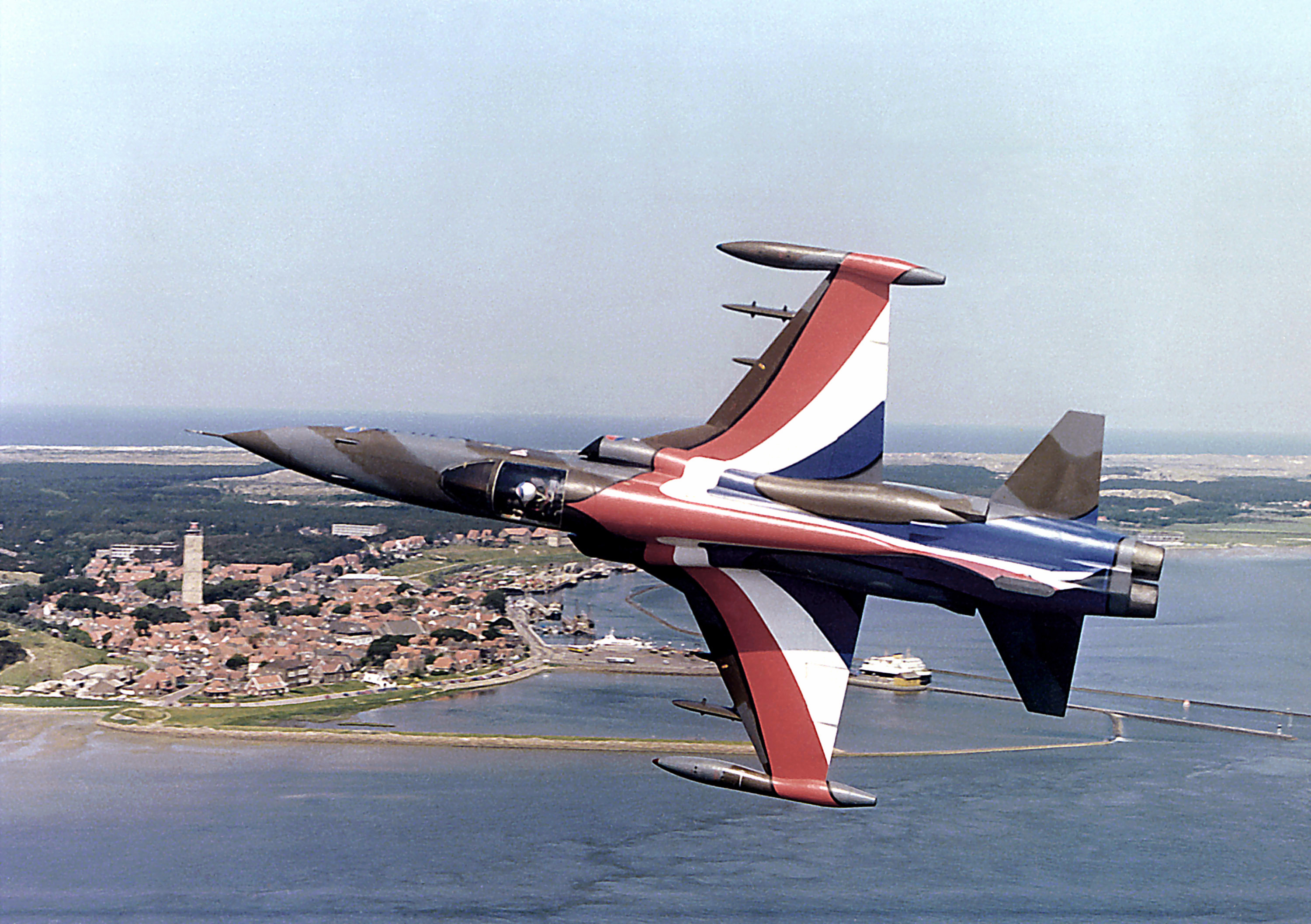 Top view of a Royal Netherlands Air Force NF-5 aircraft, flown by CPT Johannes F. Koenings, banking sharply to the left.